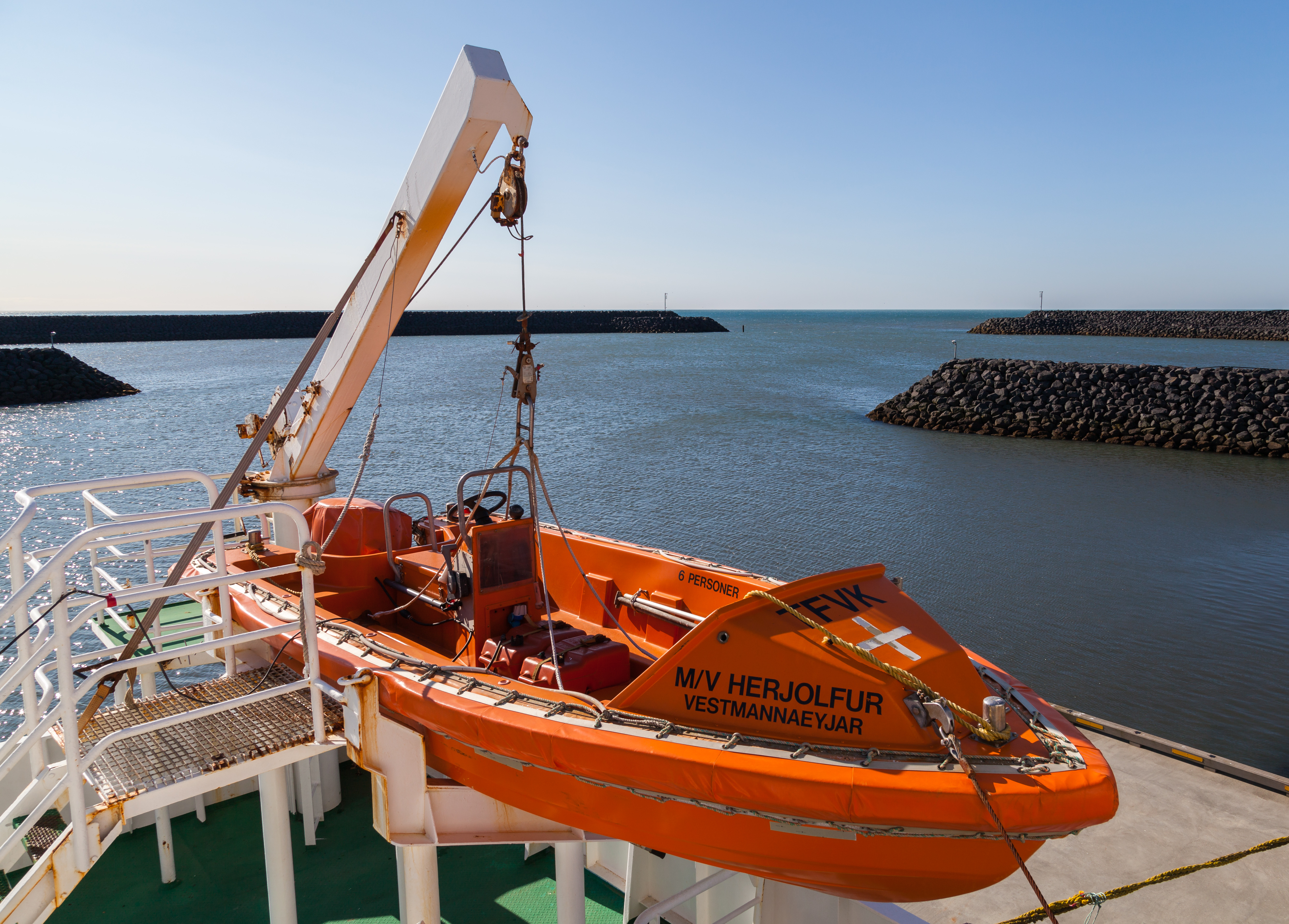 Herjólfur ferry from Landeyjahöfn to Vestmannaeyjar, Suðurland, Iceland